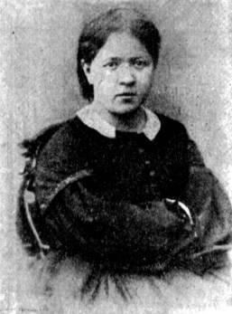 Portrait of Manaseina Maria Milhailovna (1841-1903)